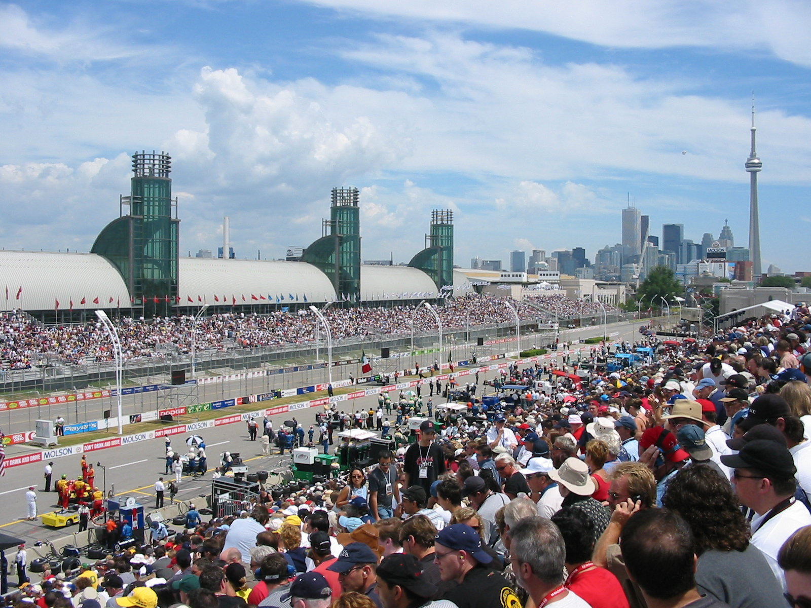 Start finish straight and pit lane during the starting grid at the 2003 Molson Indy Toronto at Exhibition Place.